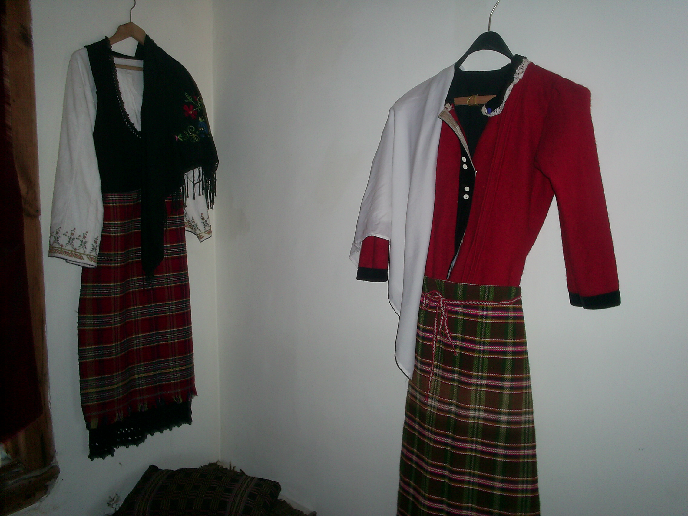 Folk costumes from the Strandja region, Bulgaria